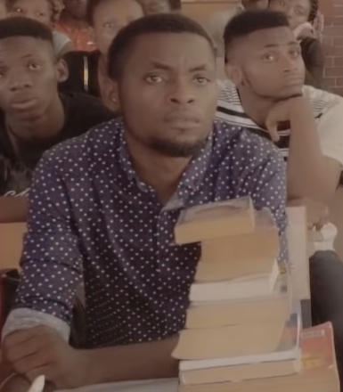 Nigerian comedian Mark Angel in a short video in cooperation with Wikimedia Foundation